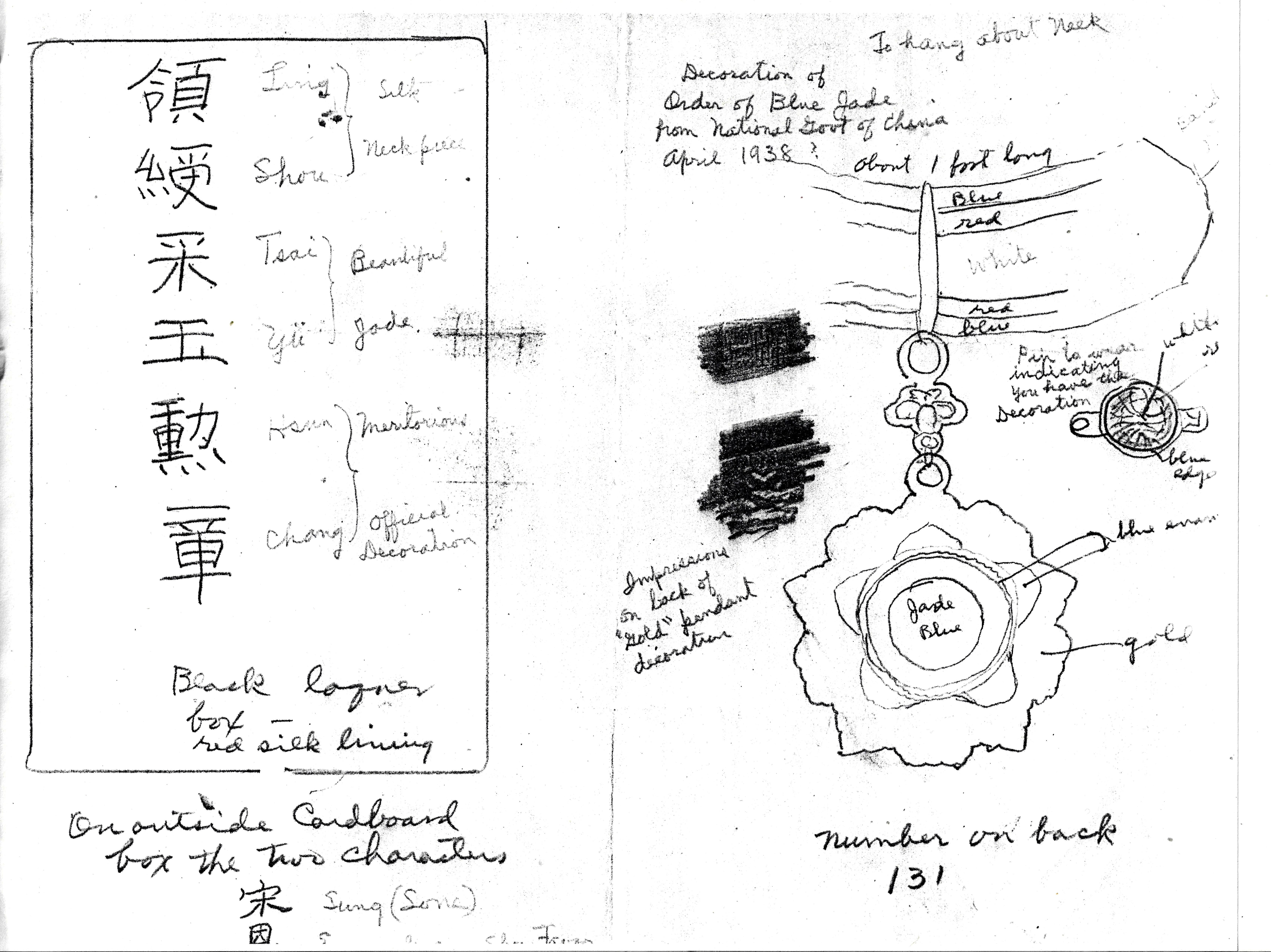 Sketch by H.L. Sone of Blue Jade medal in letter to his parents dated 7 March 1939